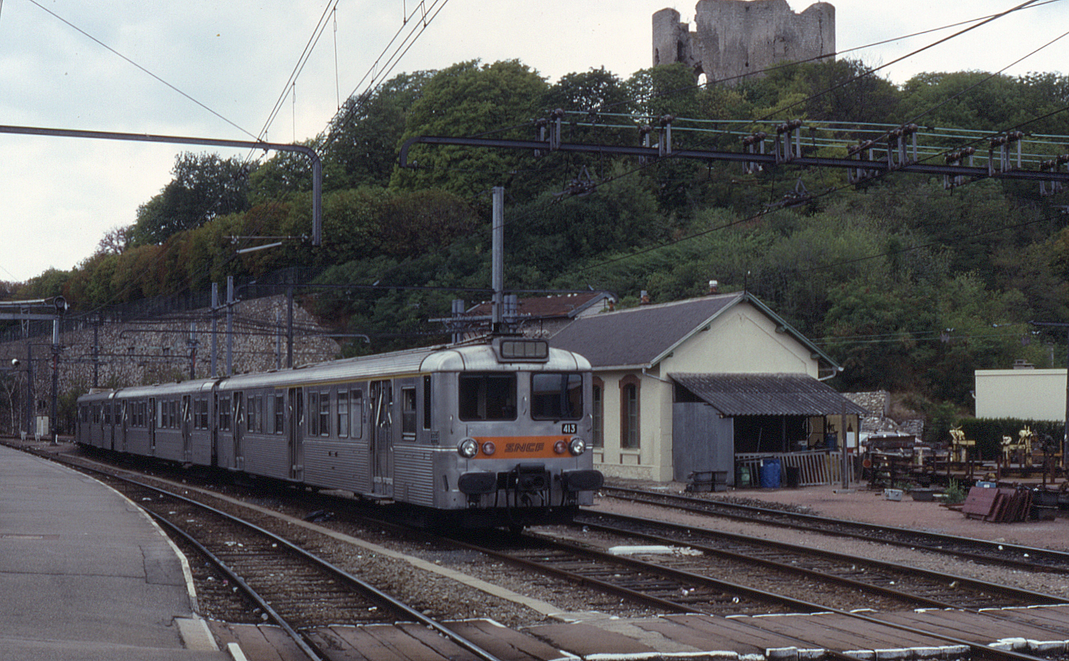 Paris suburban EMU Z 5143 stabled at Étamps, 16 August 1992.